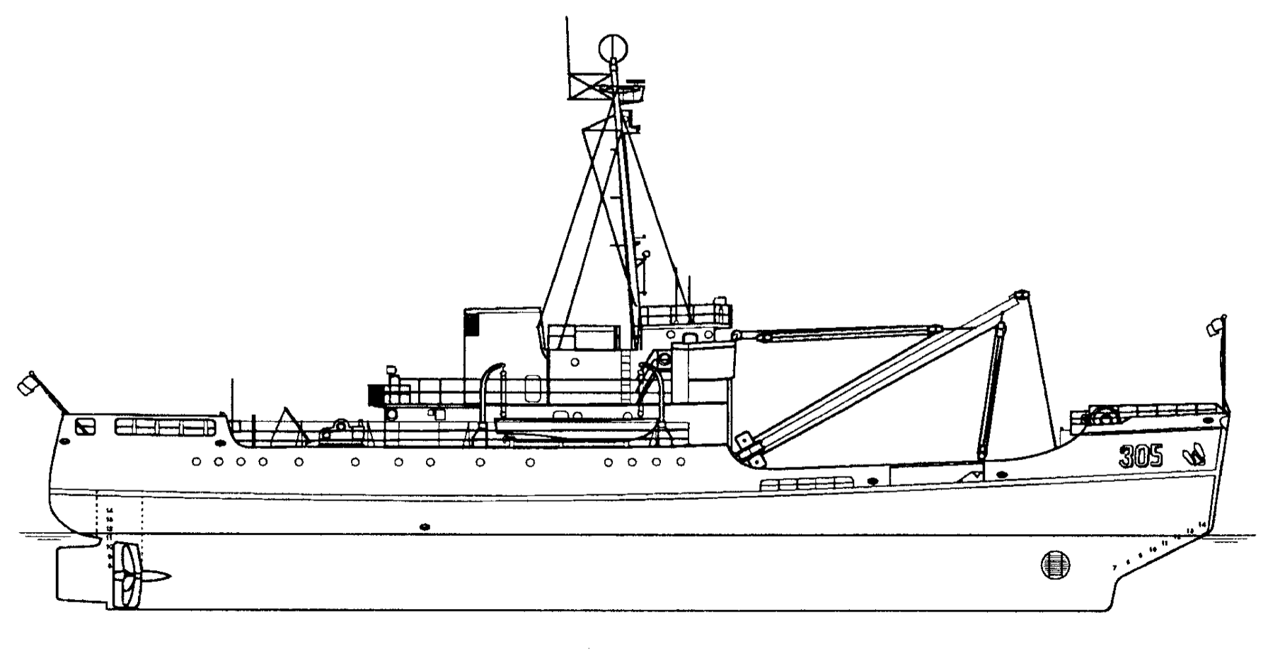 USCGC Mesquite line drawing showing her configuration after her 1976 refit added her bow thruster